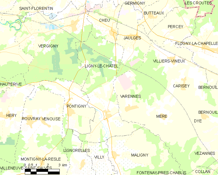 Map of French municipality Ligny-le-Châtel